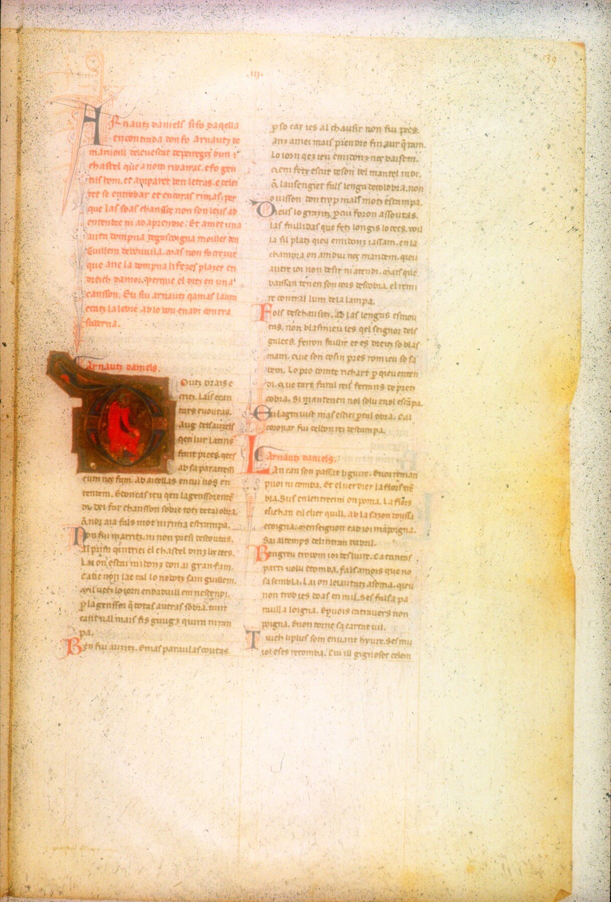 Page from a late 13th or early 14th century manuscript containing Arnaut Daniel's "Doutz brais e critz" lyrics. Rome, Bibl. Apost. Vaticana, lat. 5232 - fol. 39r